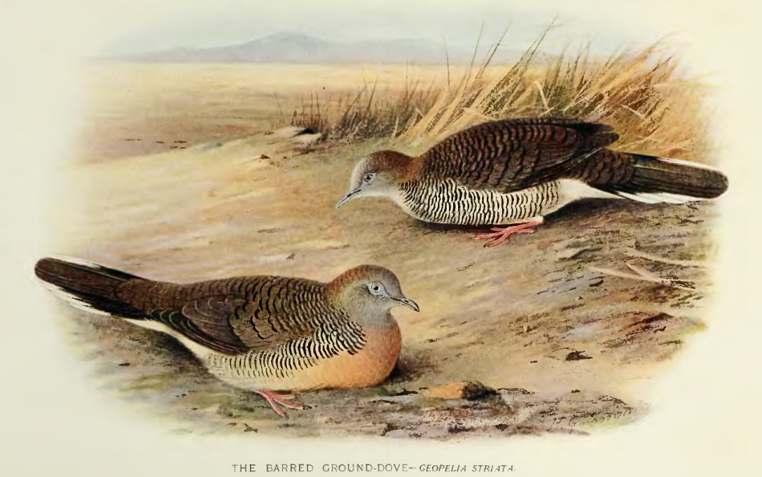 Geopelia striata